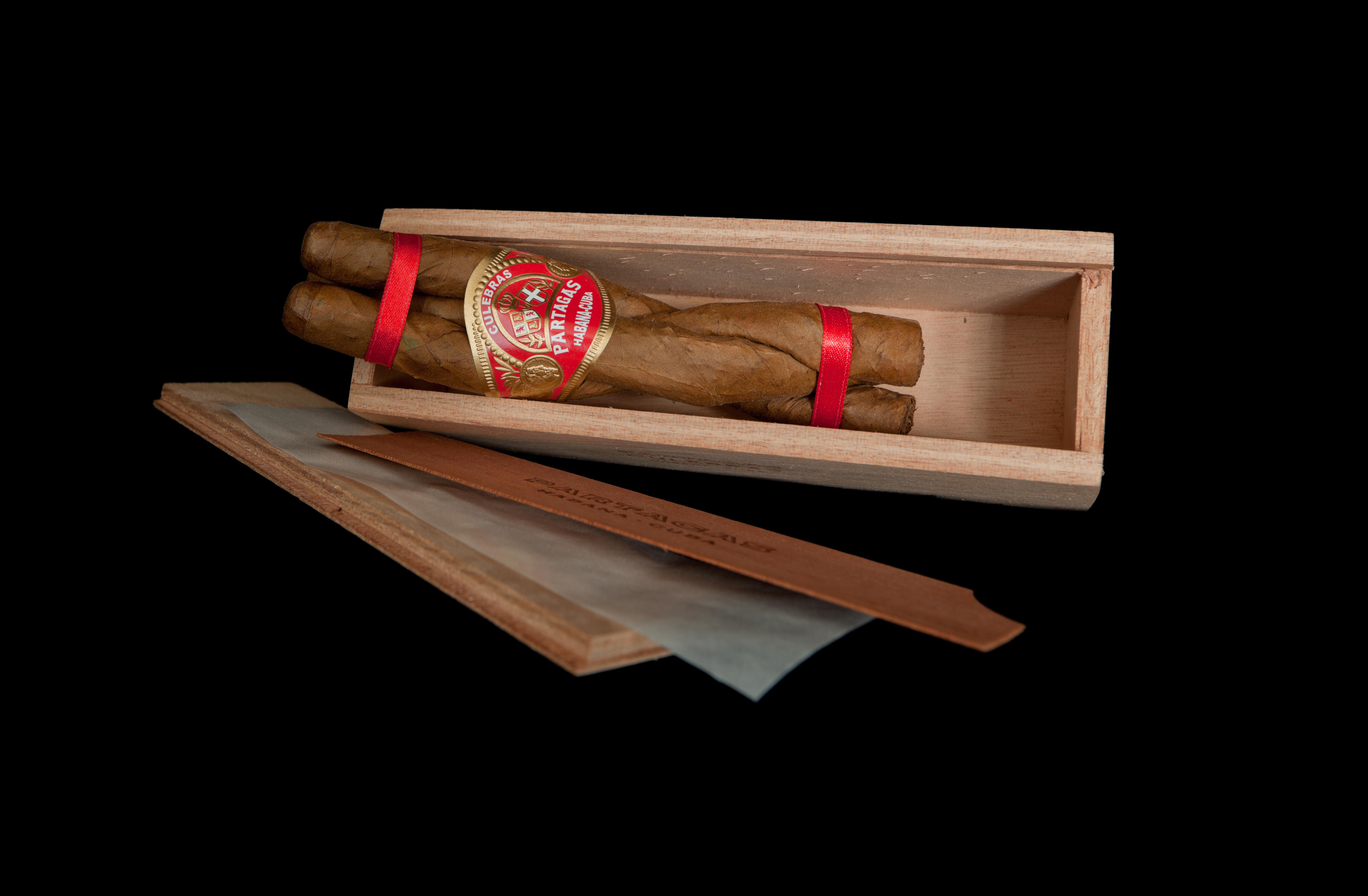 Cuban cigars by the name of Partagás Culebras. Dimensions of one cigar are 5 3/4" x 39" (146 x 15.48 mm). These cigars are presented in a wooden box, including a paper and a piece of Sandalwood. The cigars are twisted and fixed by two red ribbons and the cigar band resulting in a unique form.